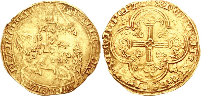 France (Royal). Jean II le Bon (the Good). 1350-1364. AV Franc à cheval (3.76 g, 5h). Struck 1360. John, armored, on horseback left, holding sword Cross fleurée; lis in quarters; all within tressure; trefoils in angles. Duplessy 294; Lafaurie 297; Ciani 361.